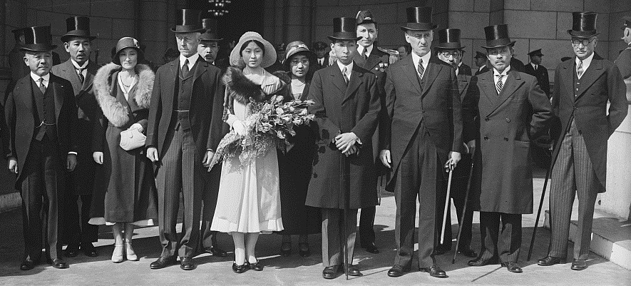 Charles Adams and Henry L. Stimson with group of Japanese? visitors at Union Station, Washington, D.C.